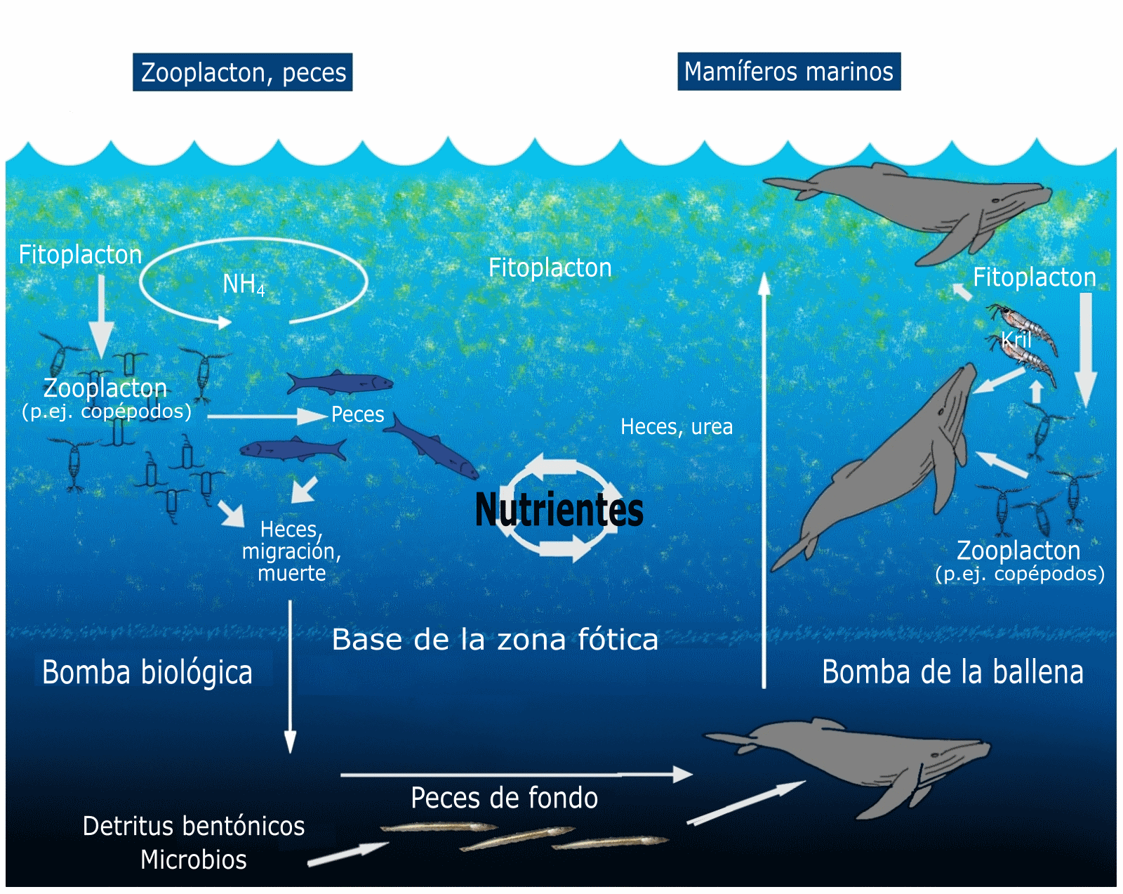 An illustration of the oceanic whale pump showing how whales cycle nutrients through the water column.